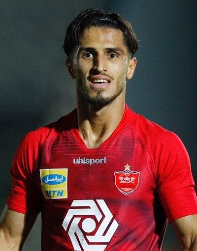 Ali Alipour